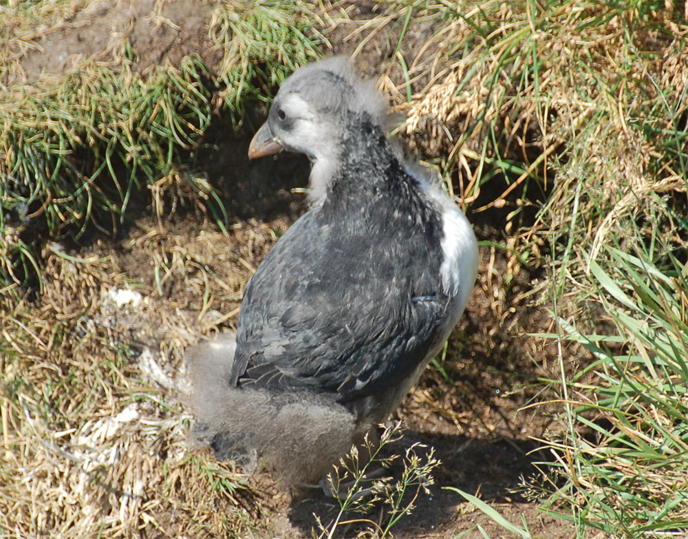 Young puffin outside its burrow on the Norwegian island of Runde.